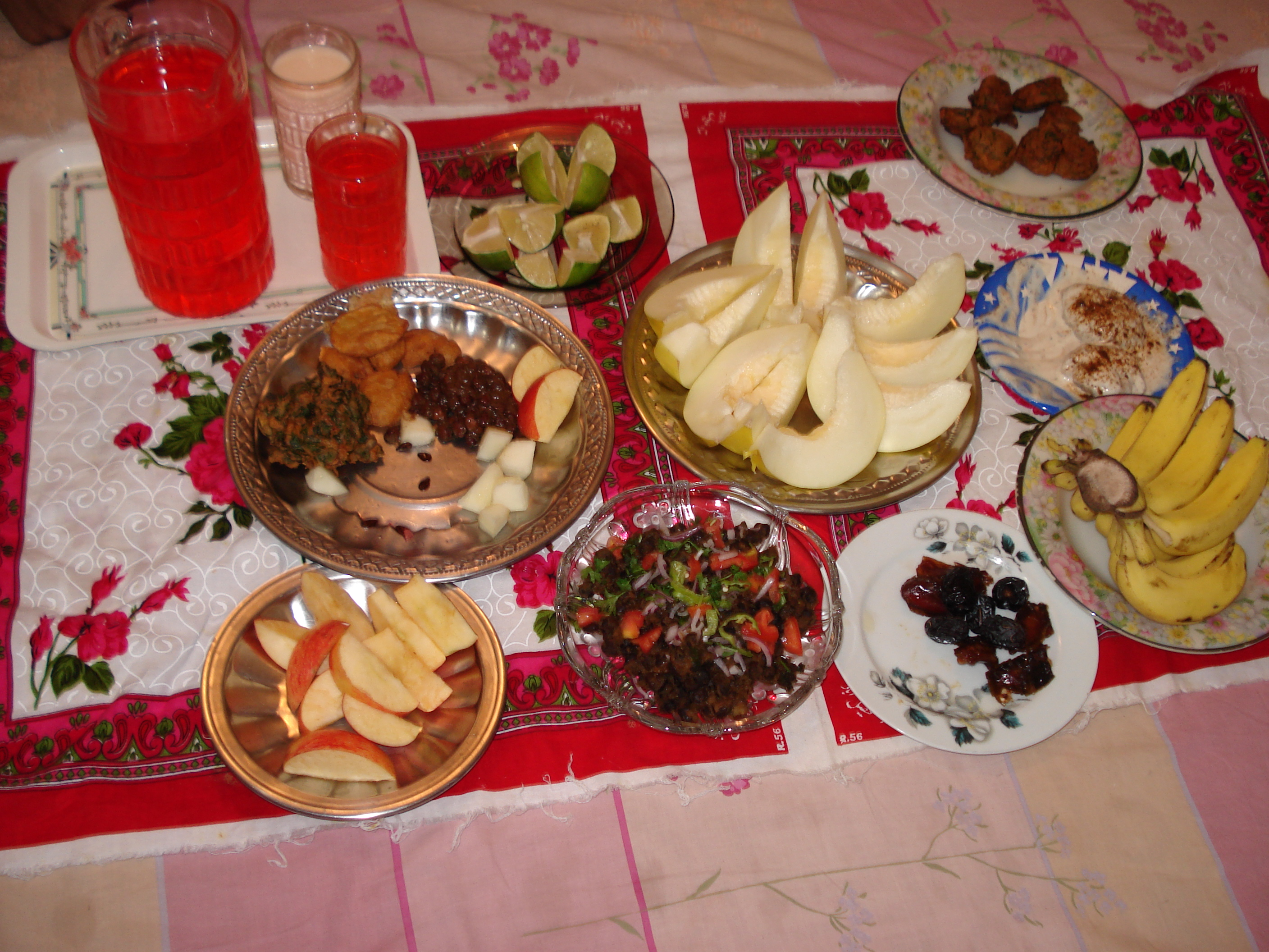 Iftar is a meal used to break fasting (Roza). Dates, fruits, pakora and sharbat are commonly consumed